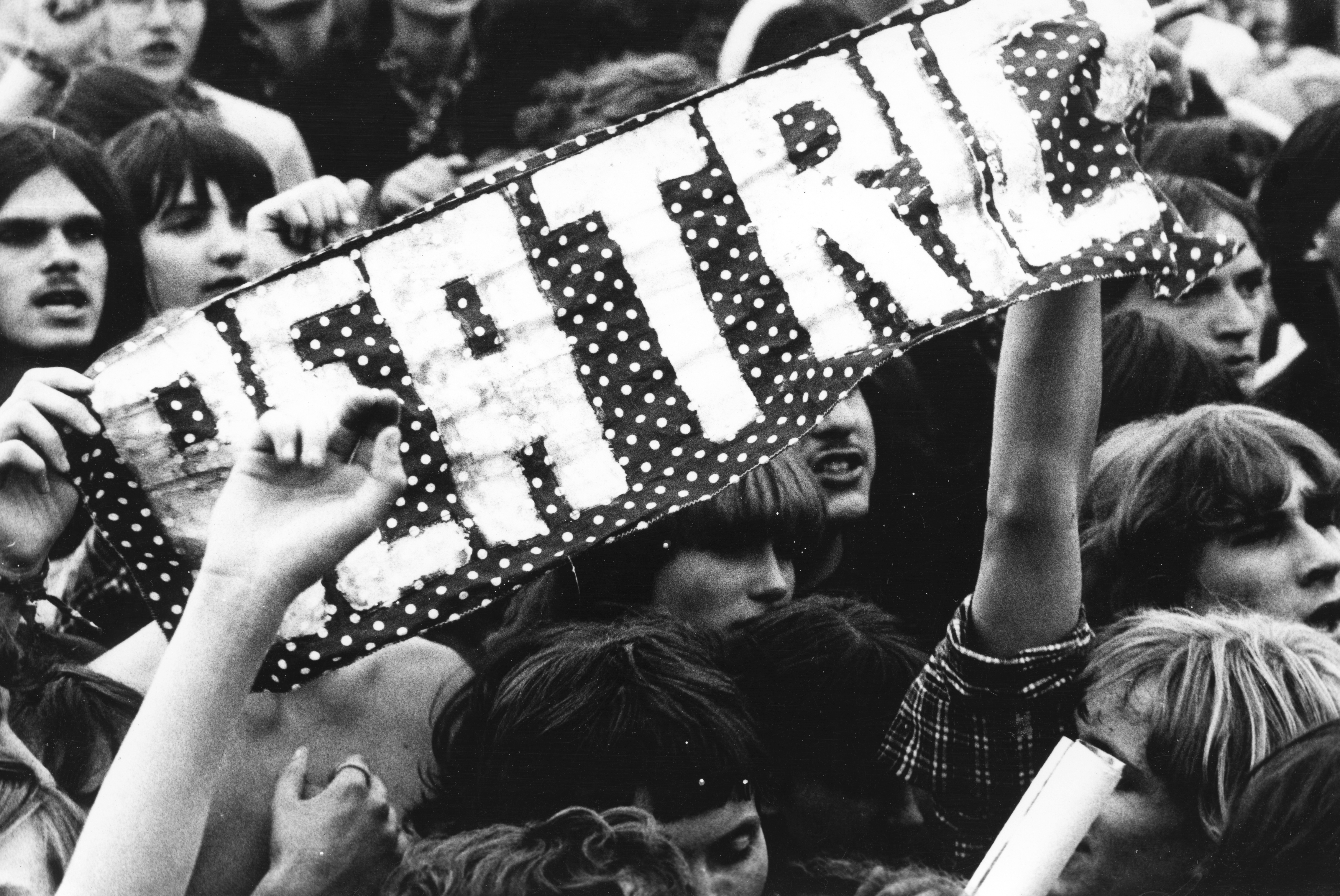 Tags: Beatrice-portrayal